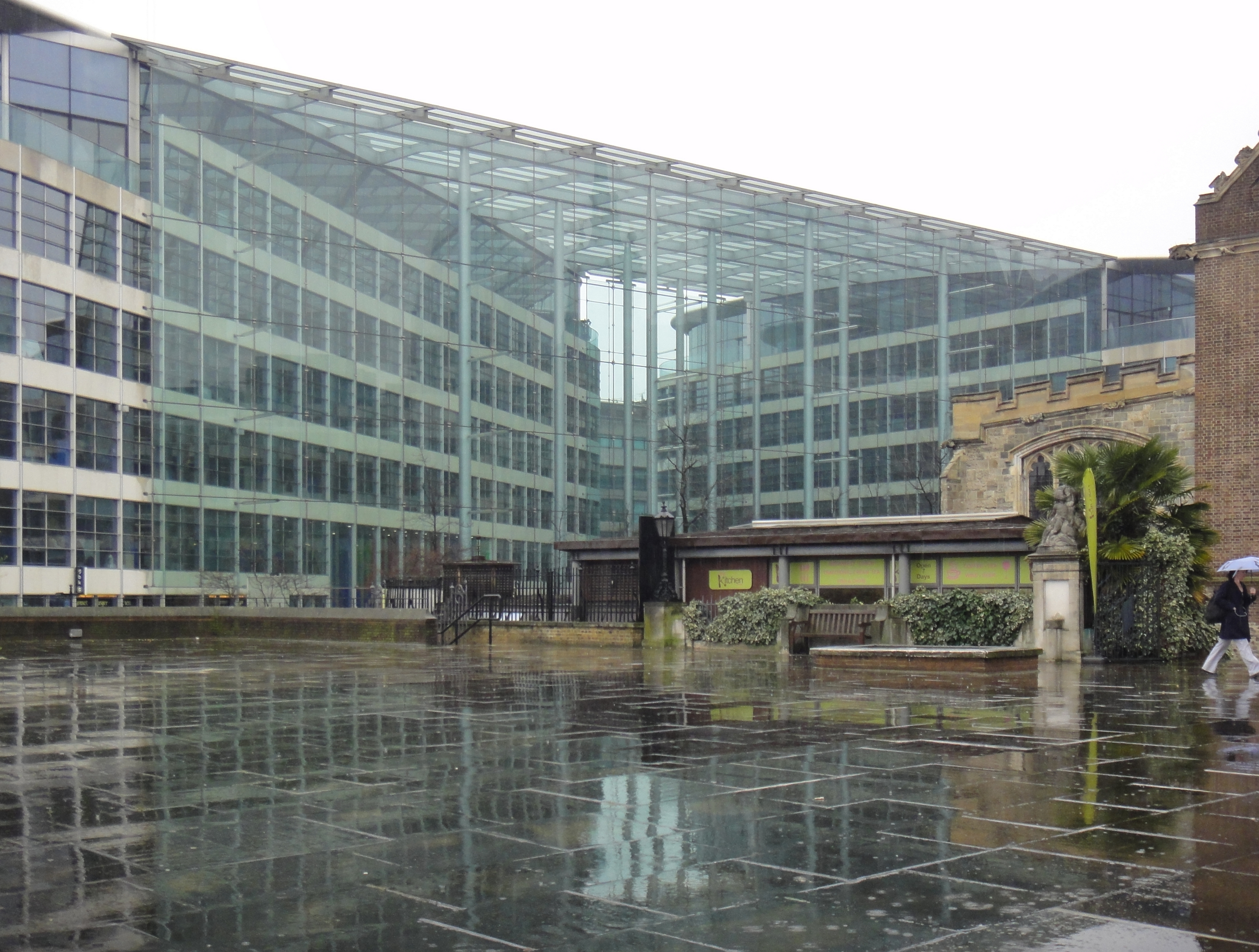 Tower Place on Tower Hill